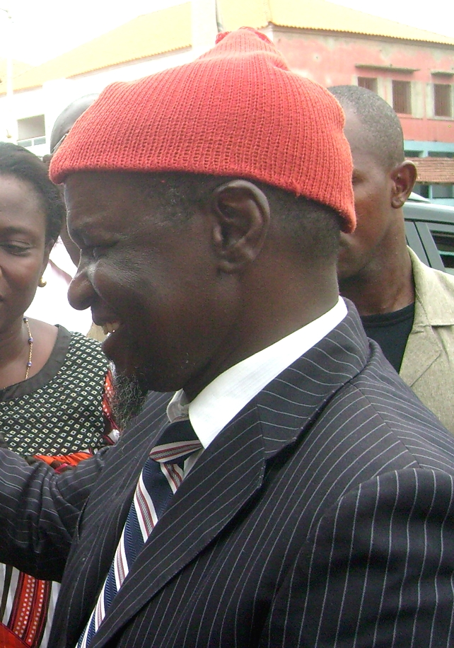 Koumba Yala (born 1953 in Bula, died 2014 in Bissau), former president of Guinea Bissau, among his electorate during 2009 presidential campaign